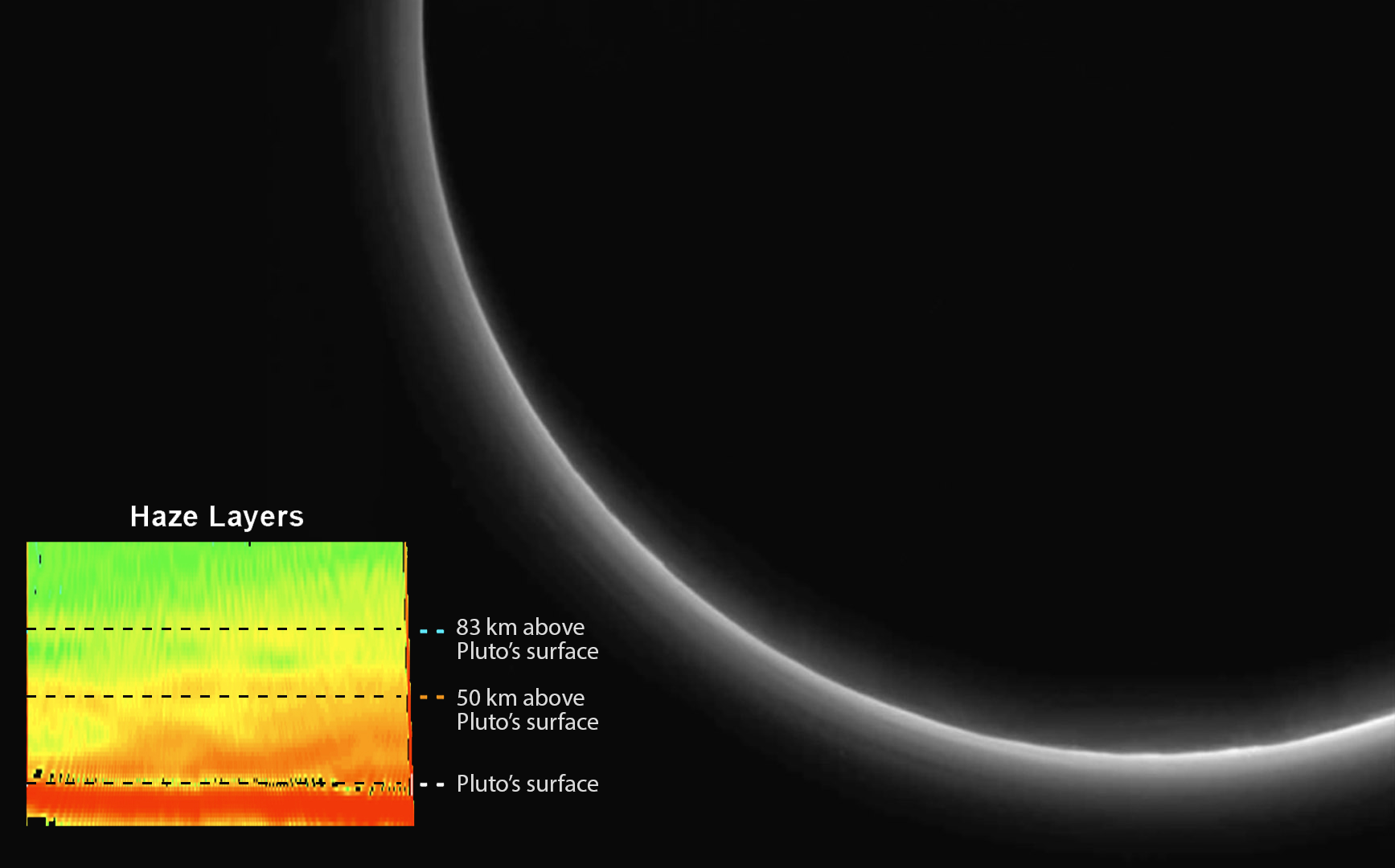 HAZE LAYERS IN PLUTO'S ATMOSPHERE - NEW HORIZONS - 14 JULY 2015 IMAGE CAPTION: Just seven hours after closest approach, New Horizons looked back and captured this spectacular image of Pluto’s atmosphere, backlit by the sun. The image reveals layers of haze that are several times higher than scientists predicted. Two distinct layers lie at 83 and 50 kilometers above Pluto's surface.